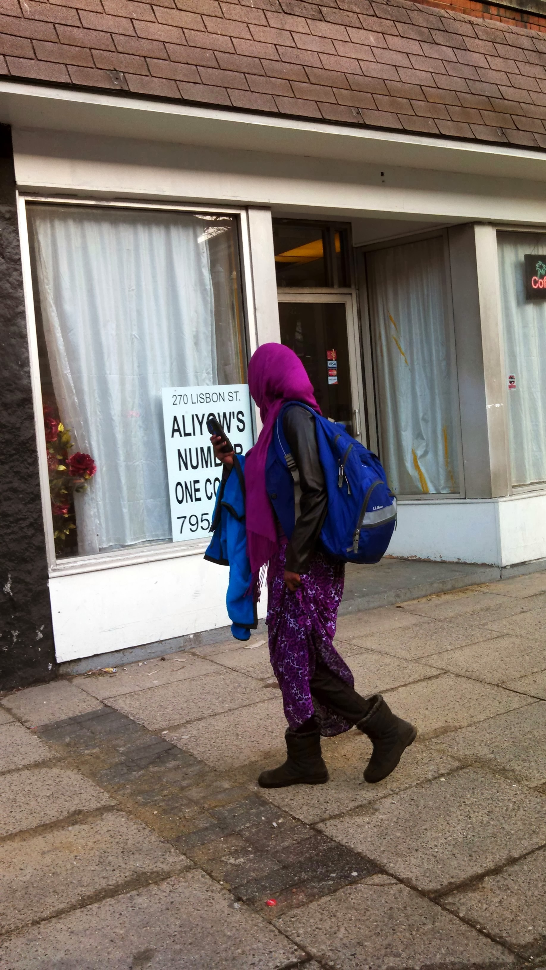 A Somali-owned store on Lisbon Street in Lewiston, Maine.